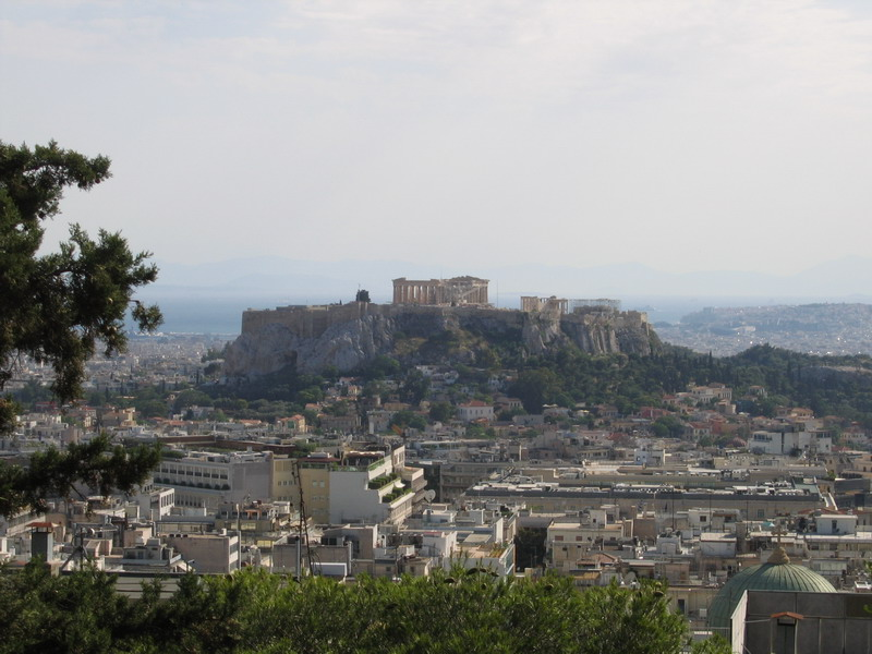 Athen_view_from_Lycabettus